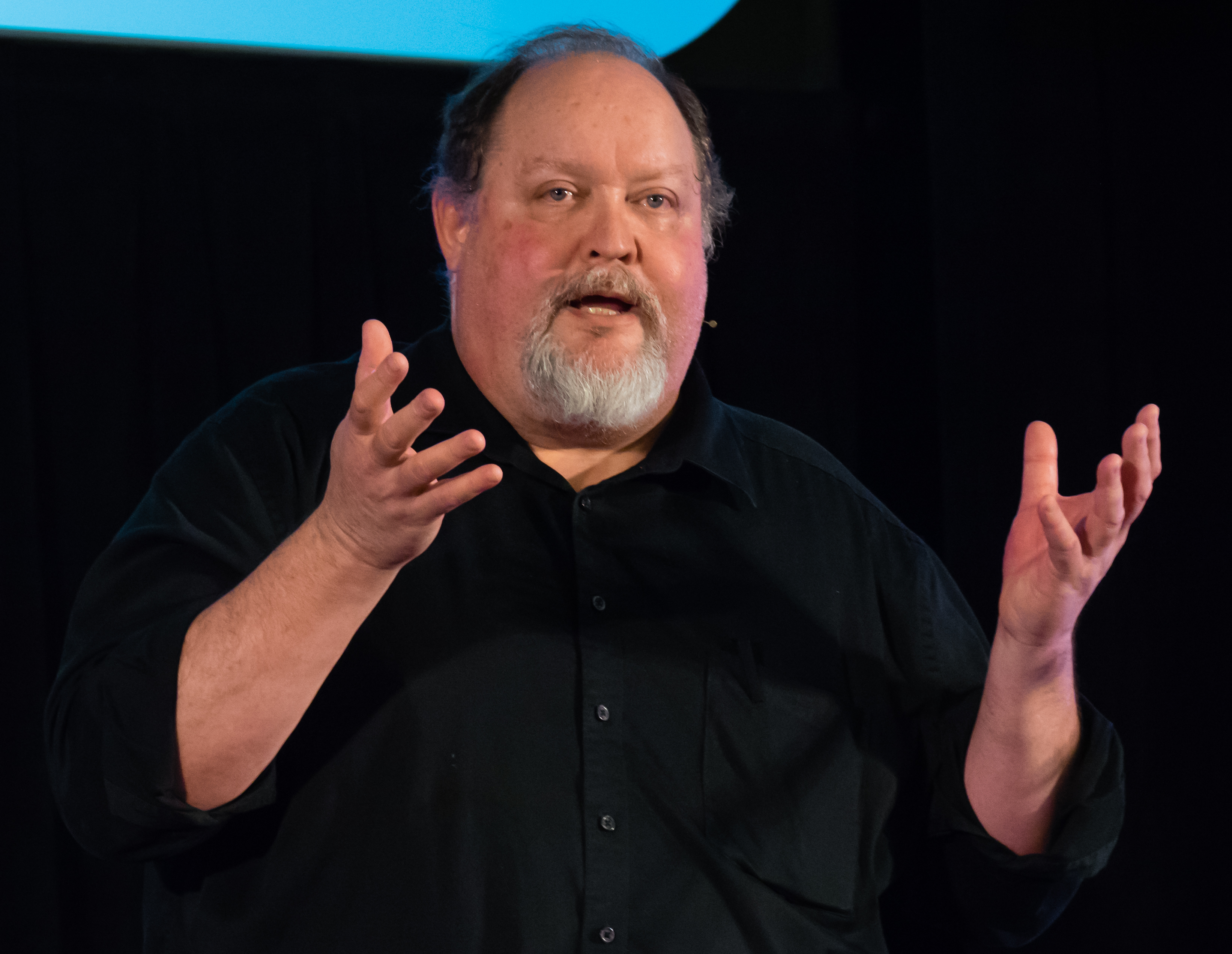 Nathan Phelps speaking at the QED:Question, Explore, Discover conference at The Palace Hotel, Manchester, UK on the 13th of April 2014.